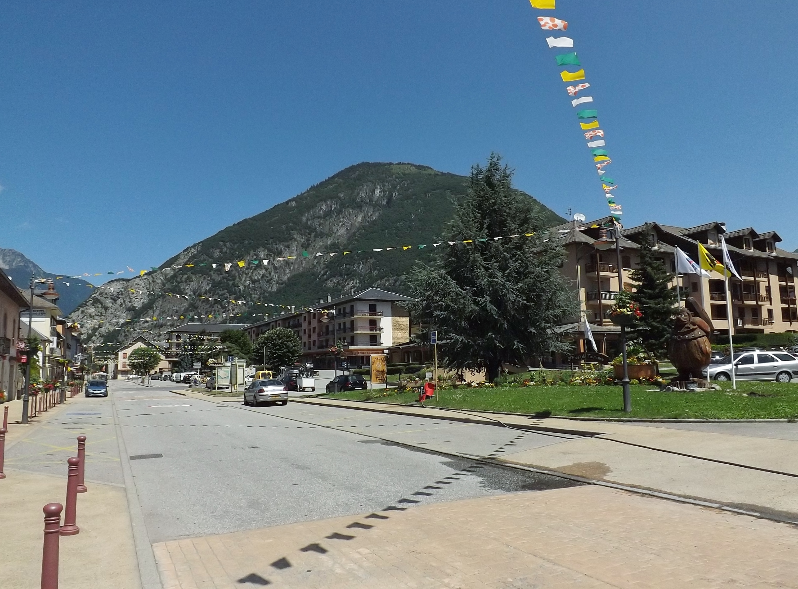 Sight of the French commune of La Chambre city center, in the Maurienne valley, in Savoie.